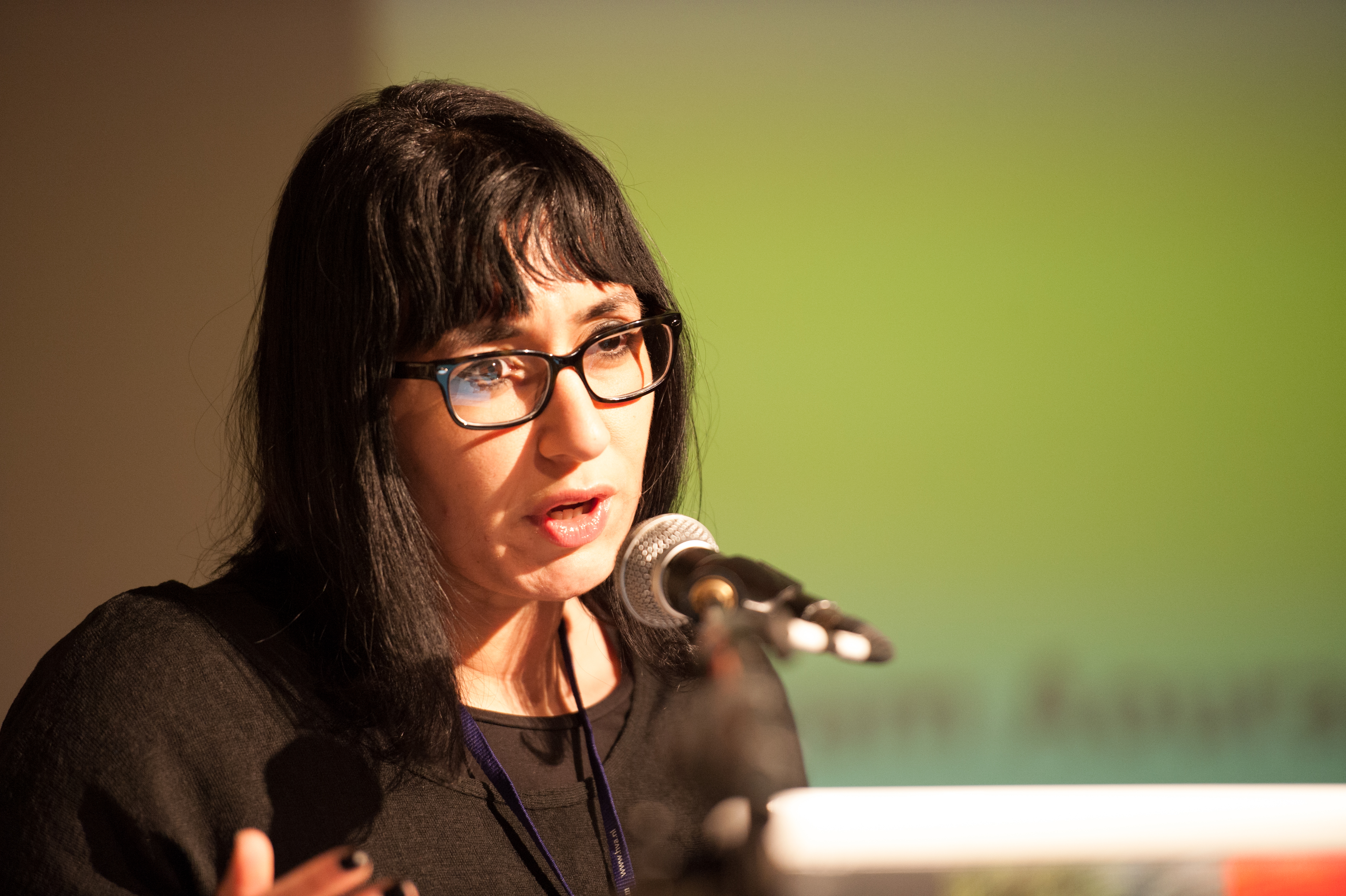 Session: Facebook Riot: Join or Decline Subject: Social Media as Damocles Sword: The Internet for Arab Activists Photo: Martin Risseeuw